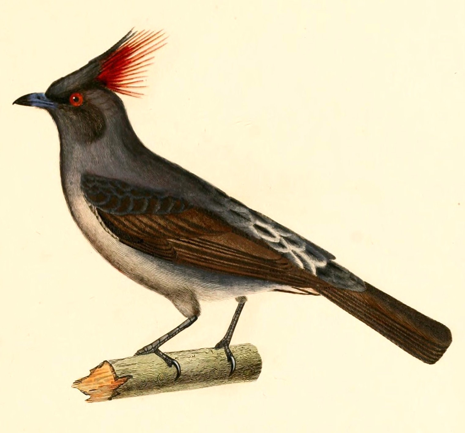 « Ampelis rubrocristata » = Ampelion rubrocristatus (Red-crested Cotinga)